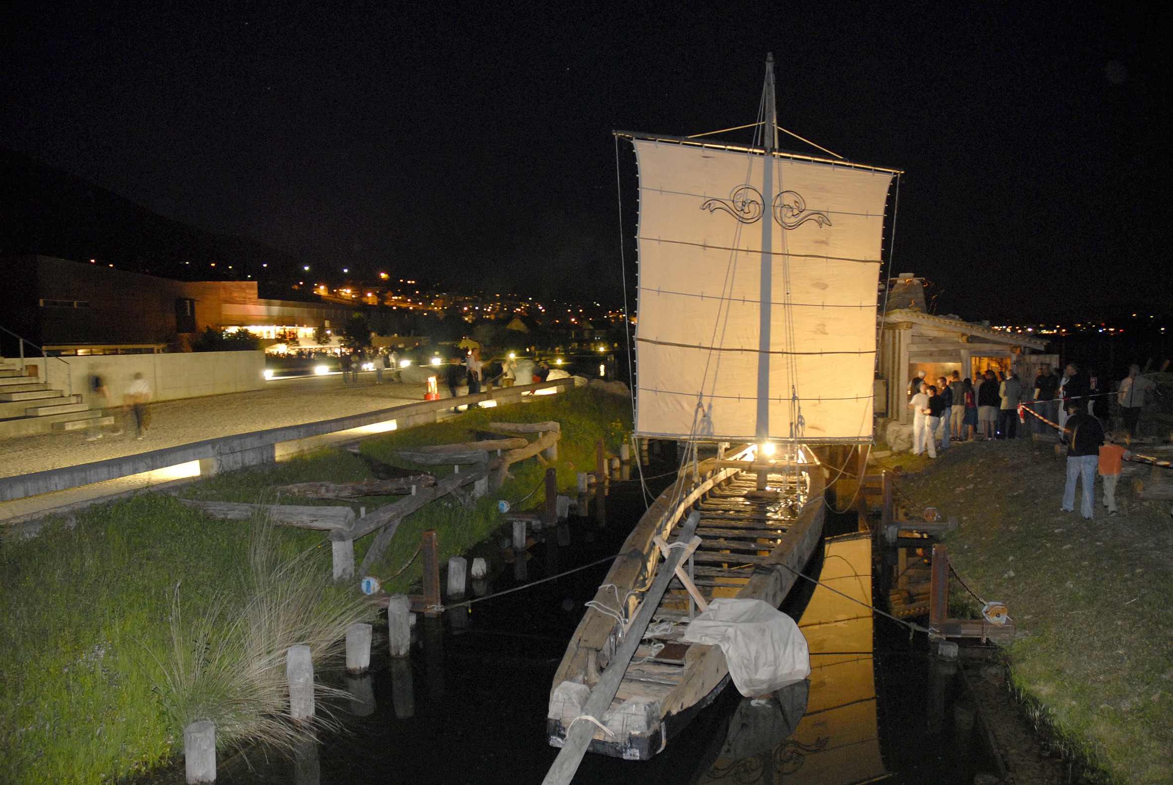 Nocturn atmosphere for an "event" at the Laténium. On the foreground, the roman boat of Bevaix in a reconstitution of the roman harbor of Avenches, the capital of roman Helvetia. Picture by M. Juillard / Laténium